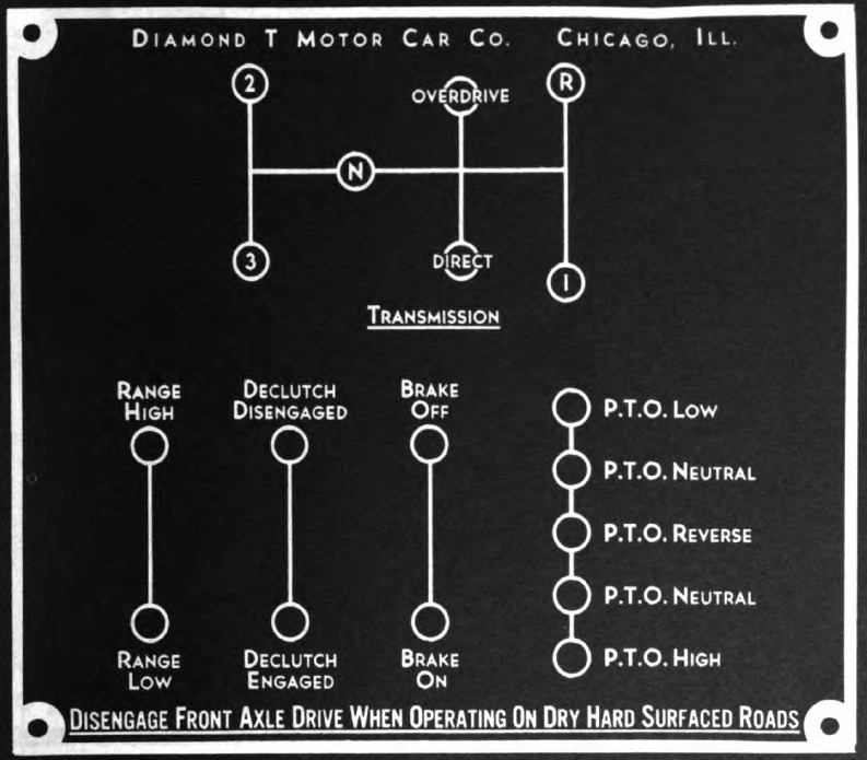 Diamond T Model 968 Cargo truck manufacturer's shift pattern plate